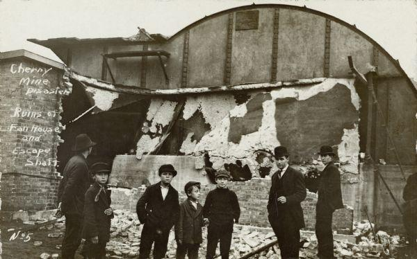 Copy of 1910 postcard showing the aftermath of the Cherry Mine Disaster Original caption: “Cherry Mine Disaster: Ruins of Fan House and Escape Shaft. Nº 5”